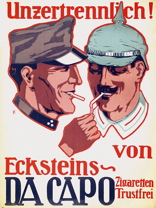 Werbeplakat Eckstein Da Capo Zigaretten, 1915